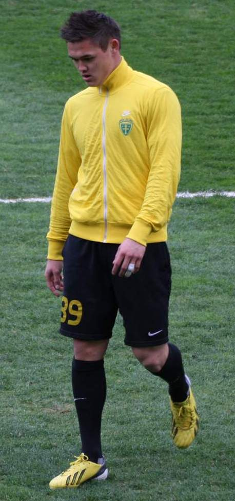 Photo of Slovak footballer Patrik Le Giang